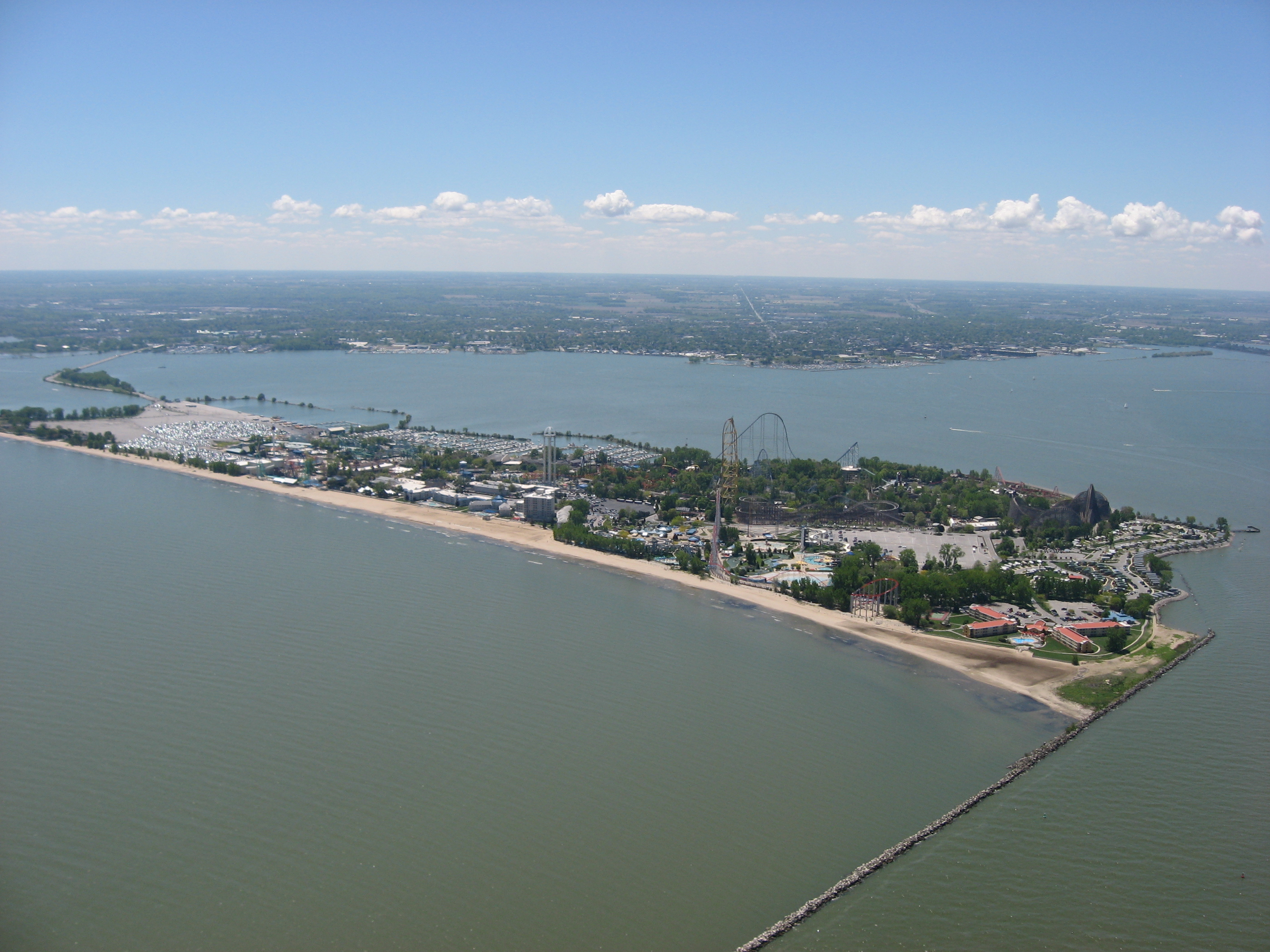 Aerial view of Cedar Point, an amusement park near the city of Sandusky in Erie County, Ohio, United States. Picture taken from a Diamond Eclipse light airplane at an altitude of 1,750 feet MSL and a bearing of approximately 187º.